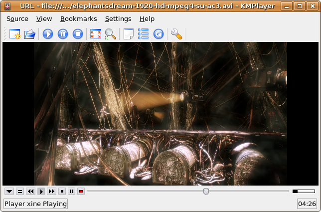 Screenshot of KMPlayer 0.10.0c on ubuntu, the video being played is "Elephants Dream".